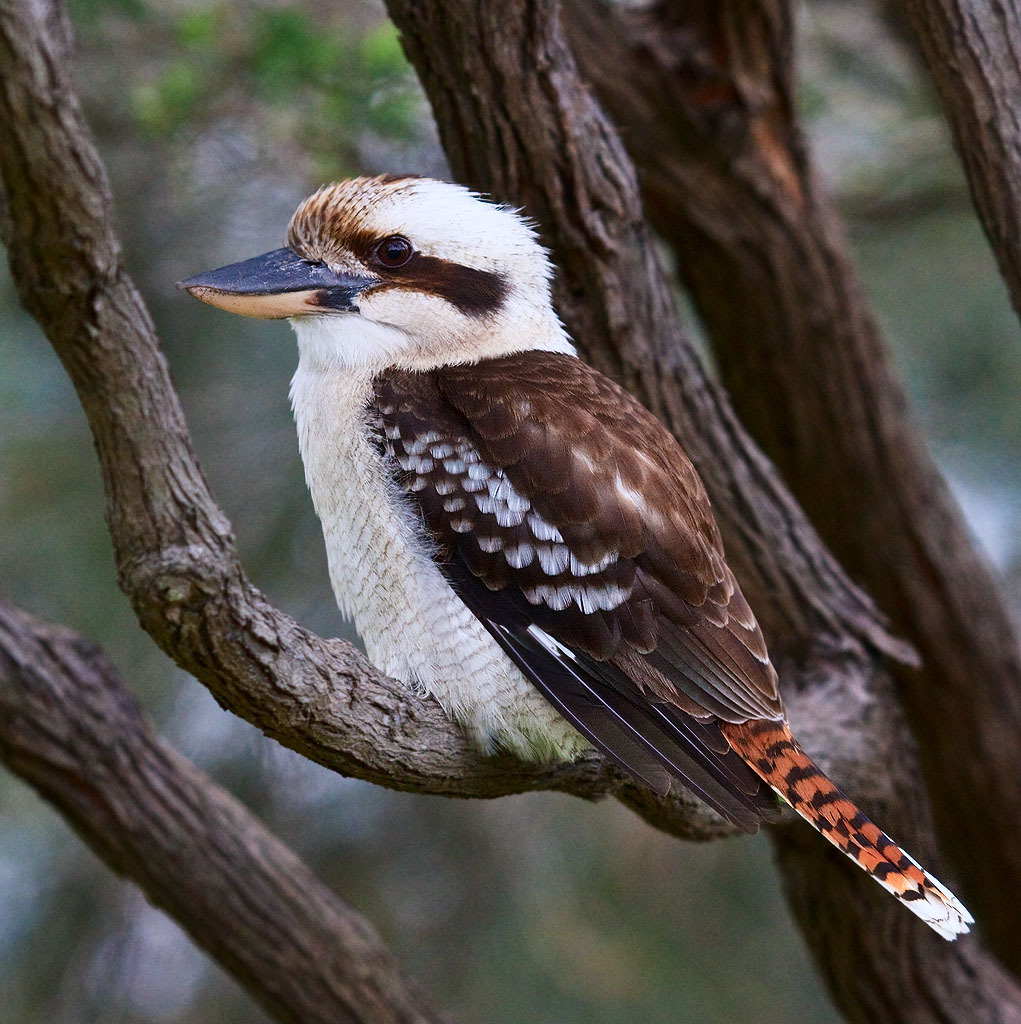 Greenwich, suburban Sydney Australia